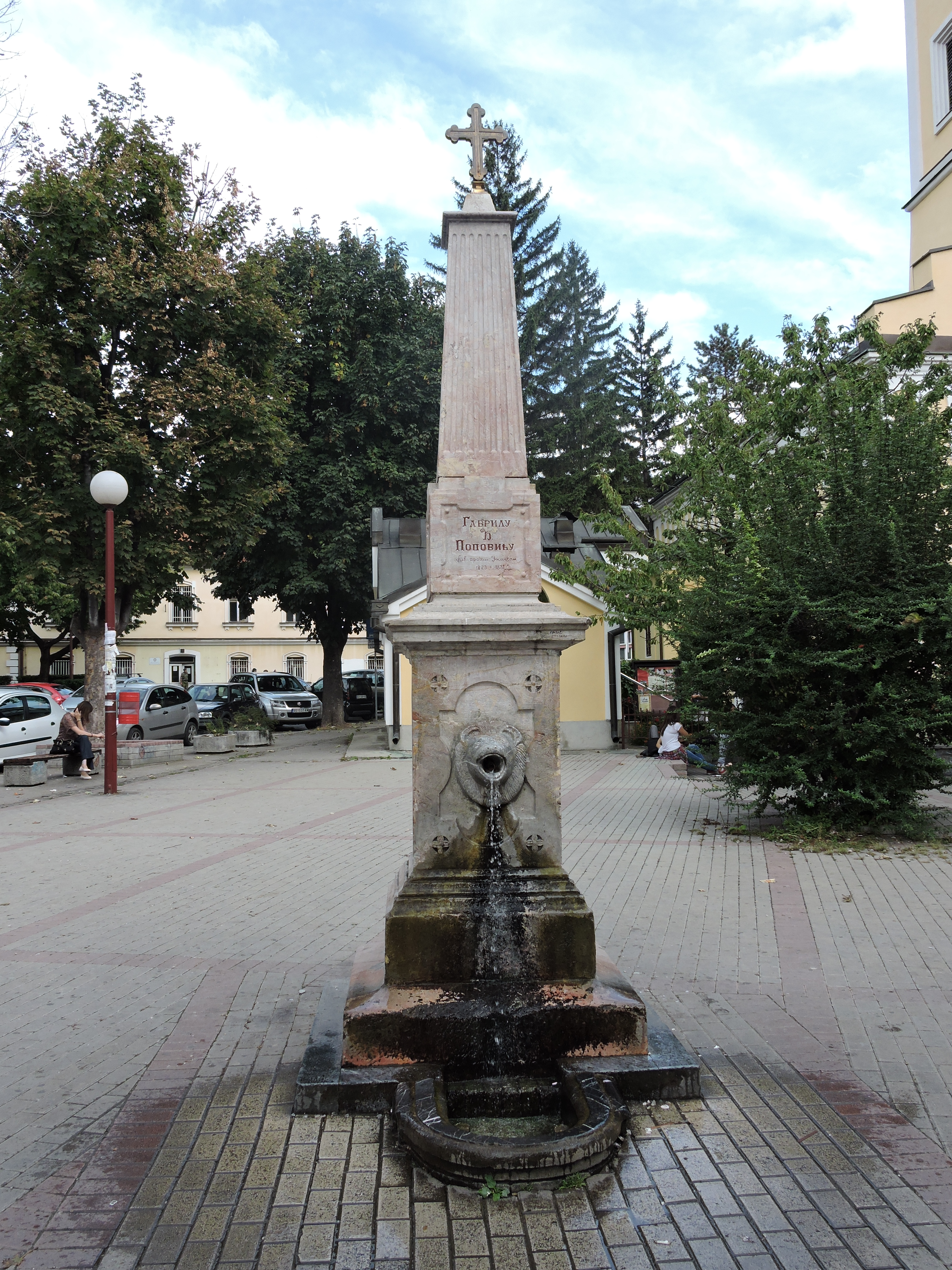 Aljo's fountain